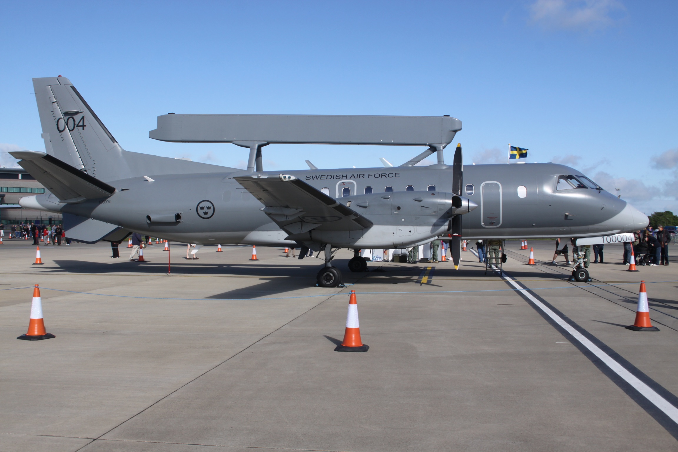 At RAF Waddington